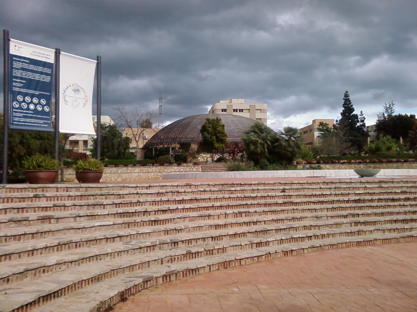 Botanical garden, University of Málaga, Spain